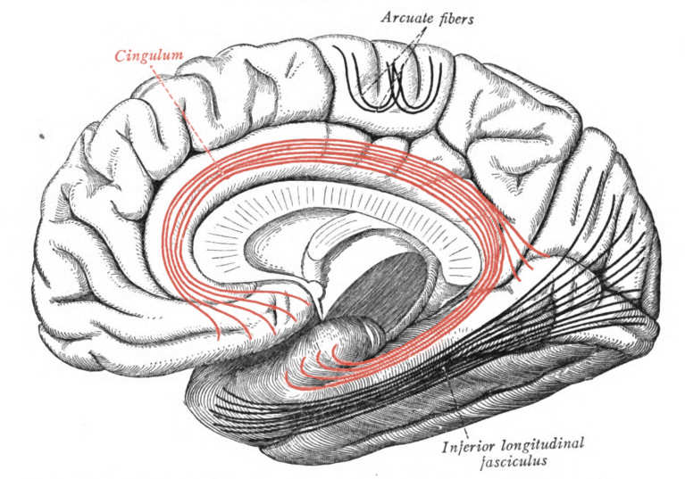 Cingulum. Association fiber around corpus callosum in brain.